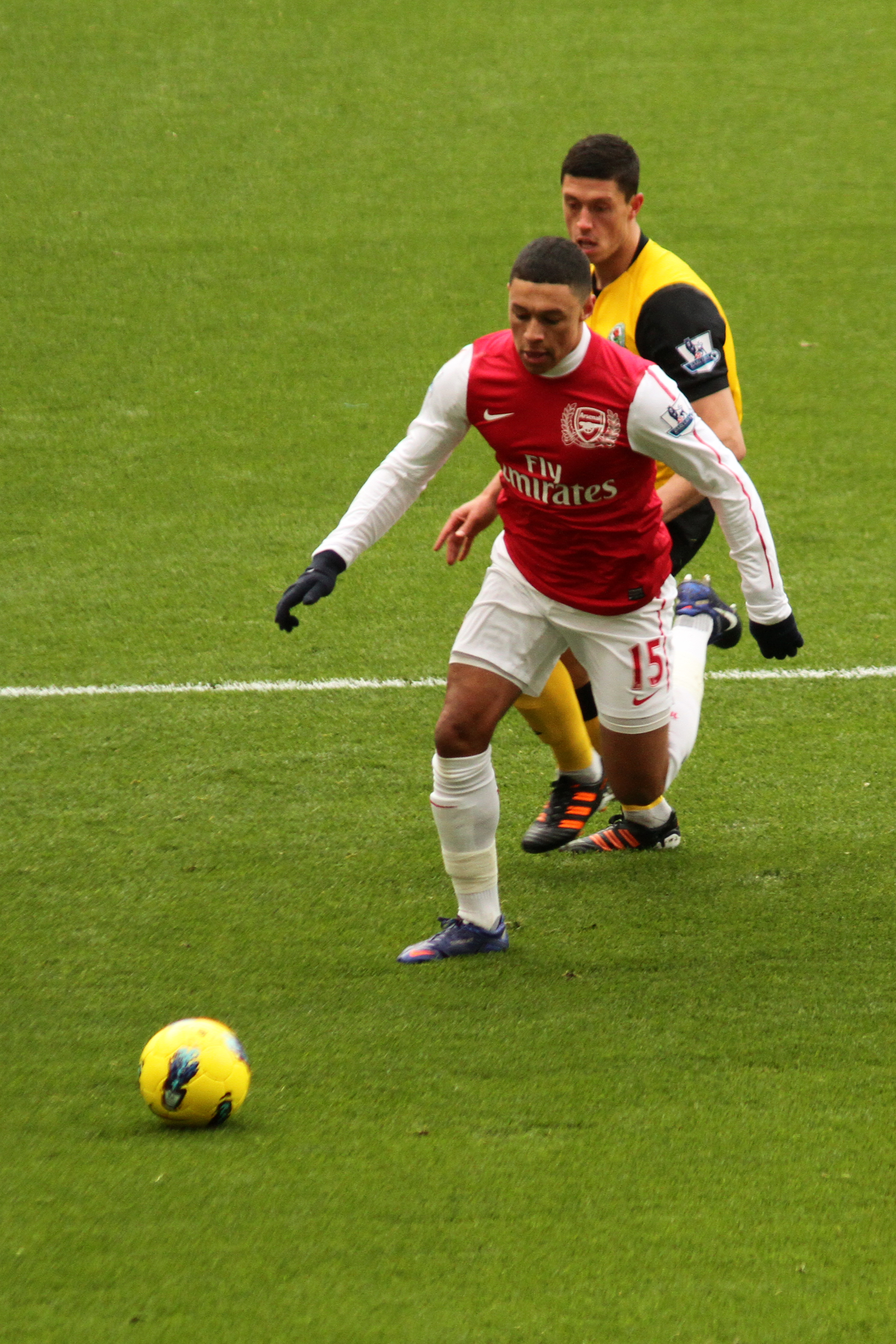 Alex Oxlade-Chaimberlain playing against Blackburn Rovers